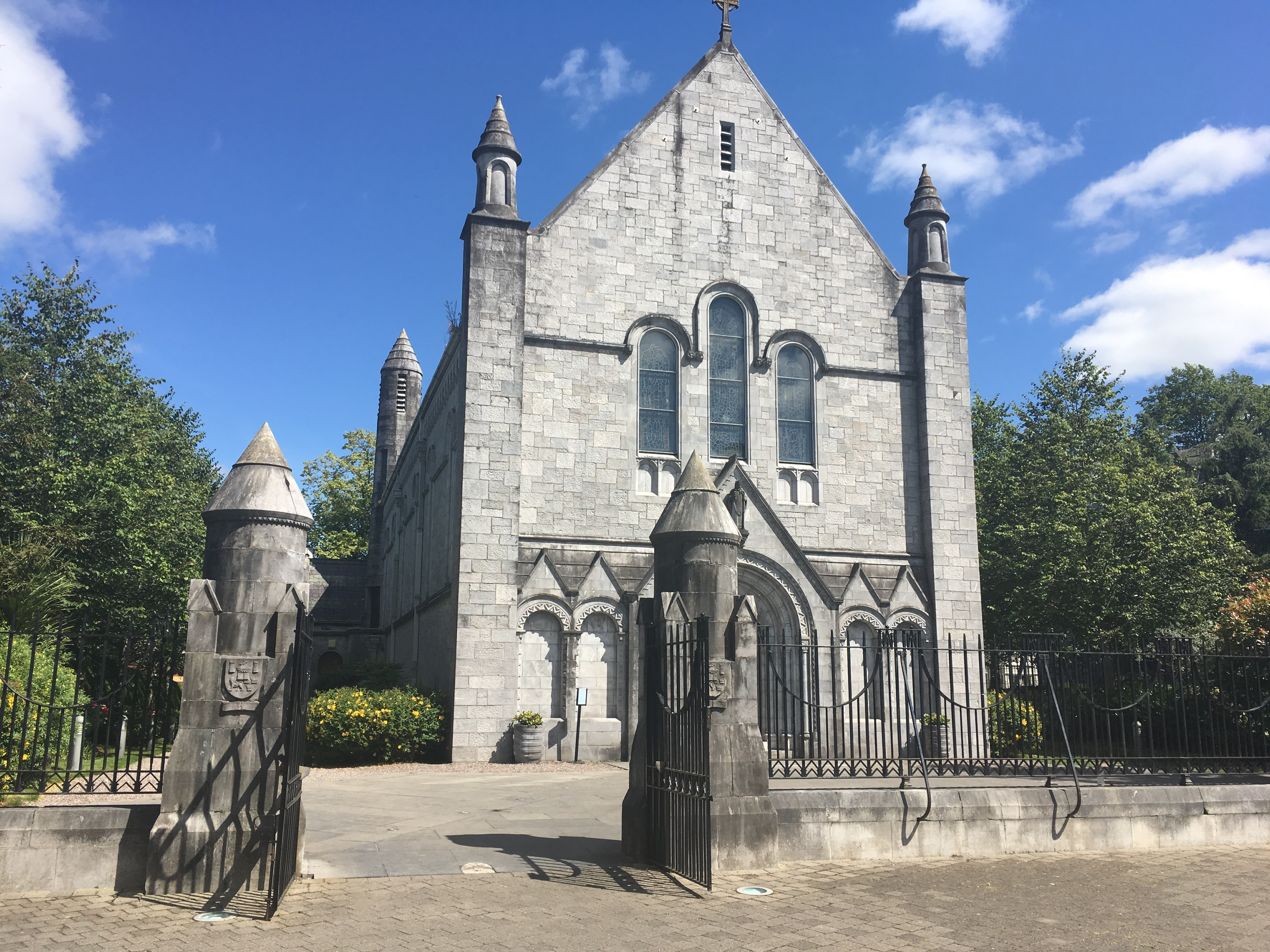 Honan chapel, Cork, Ireland